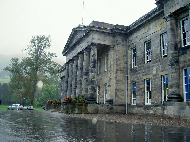 Dollar Academy main building